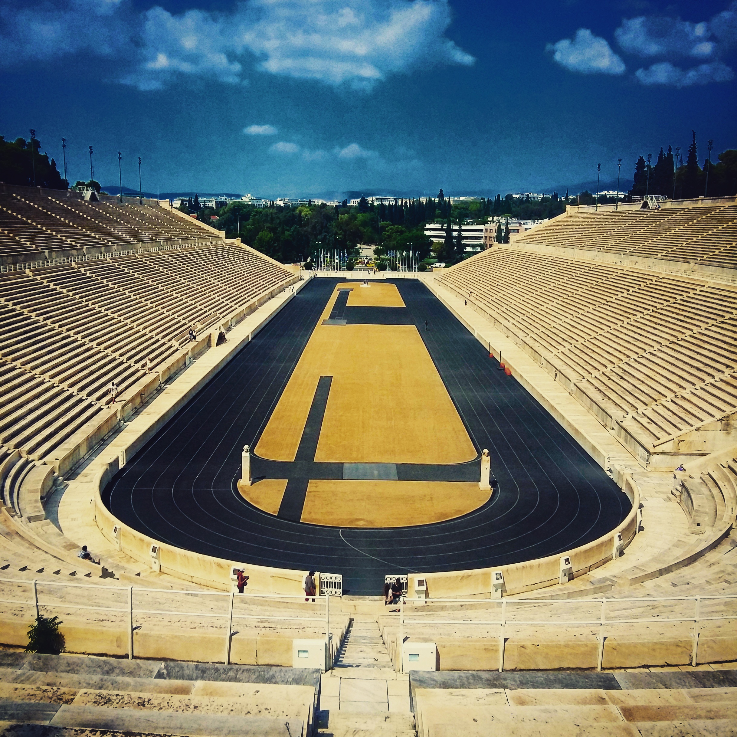 Overview of the Kallimarmaro or Panathenaic Stadium. Image taken in September 2016.